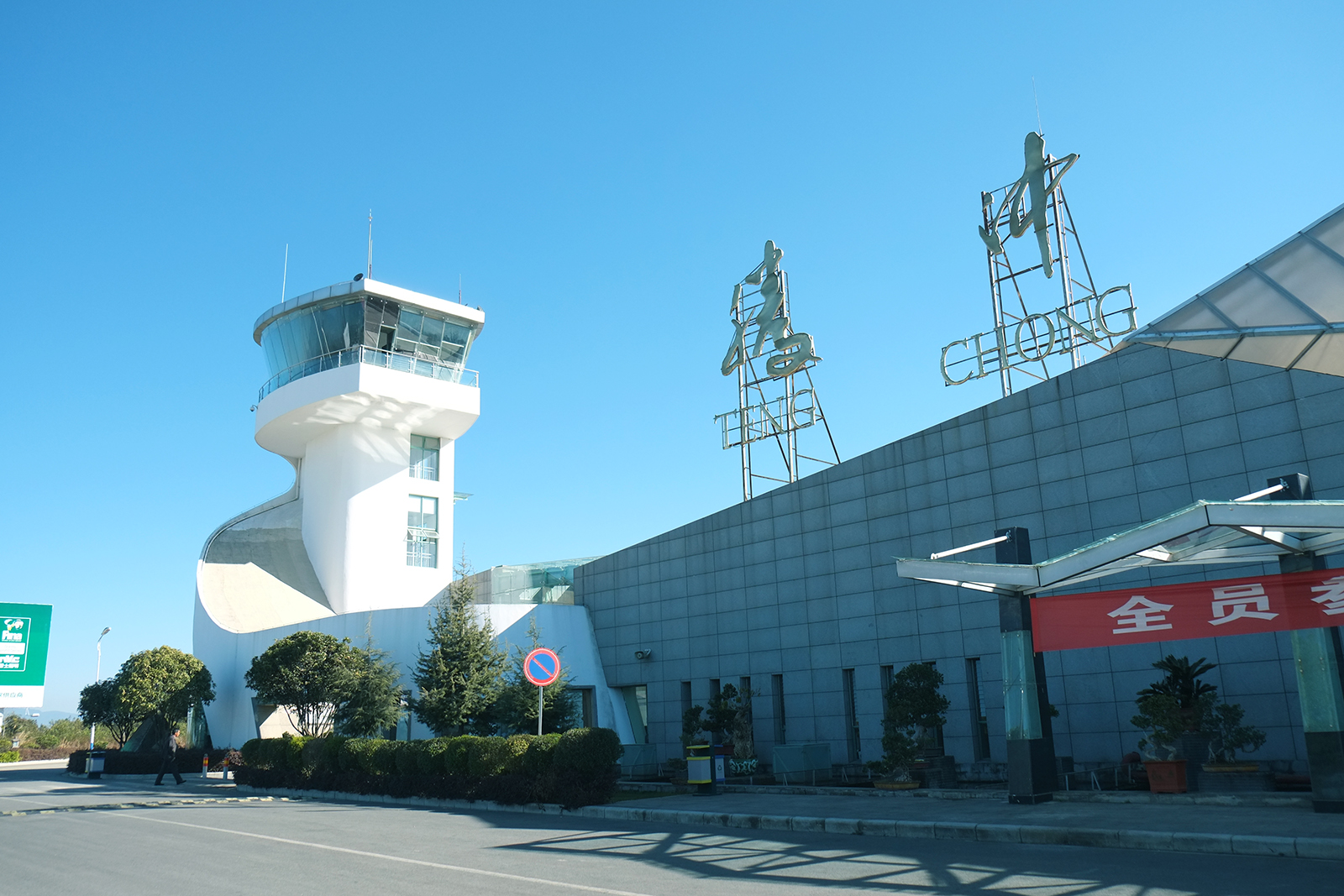 The terminal of Tengchong Tuofeng Airport